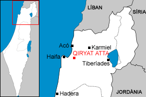 Localization of Qiryat Atta within Israel.